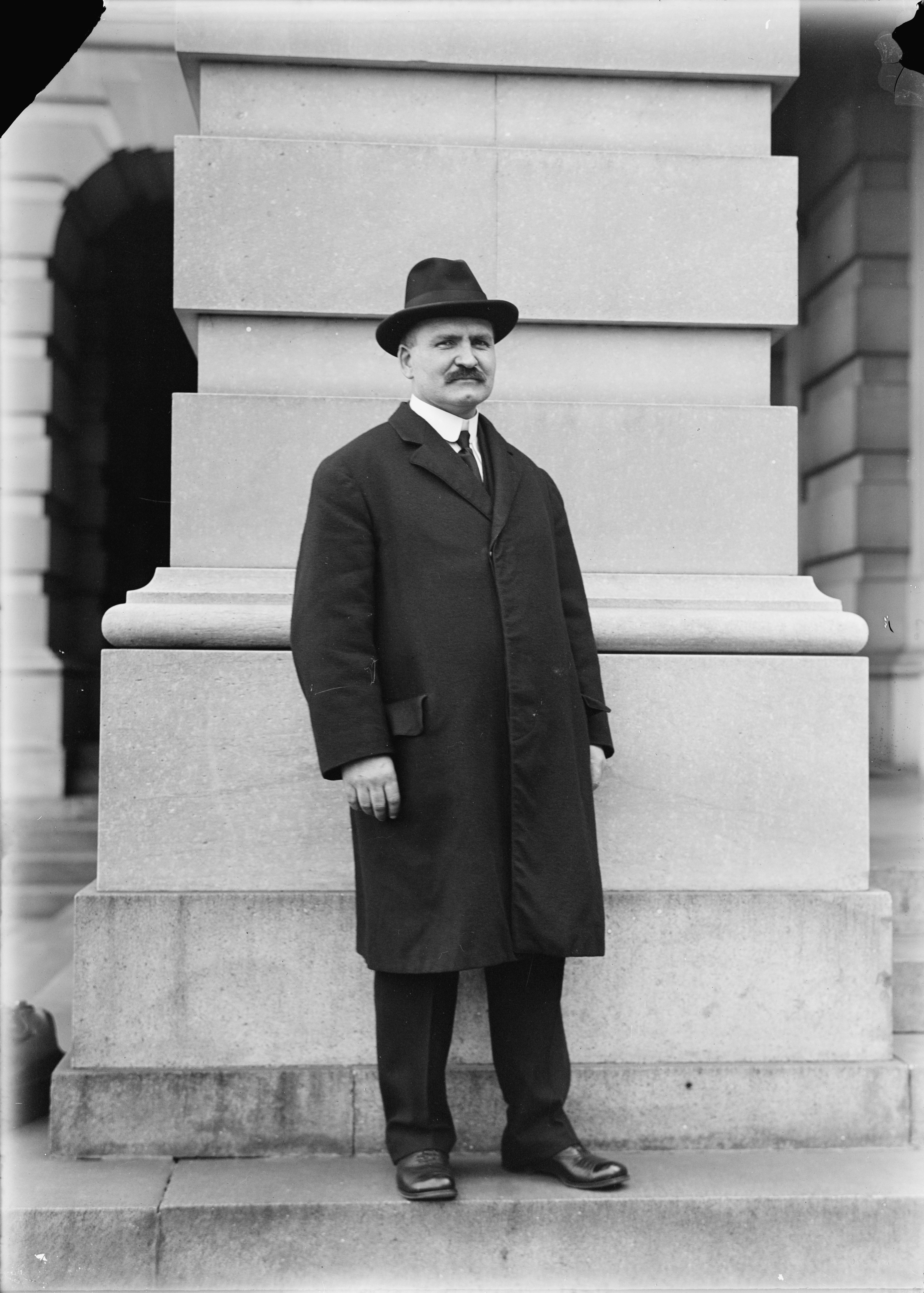 William M. Calder, Congressman and Senator from New York.